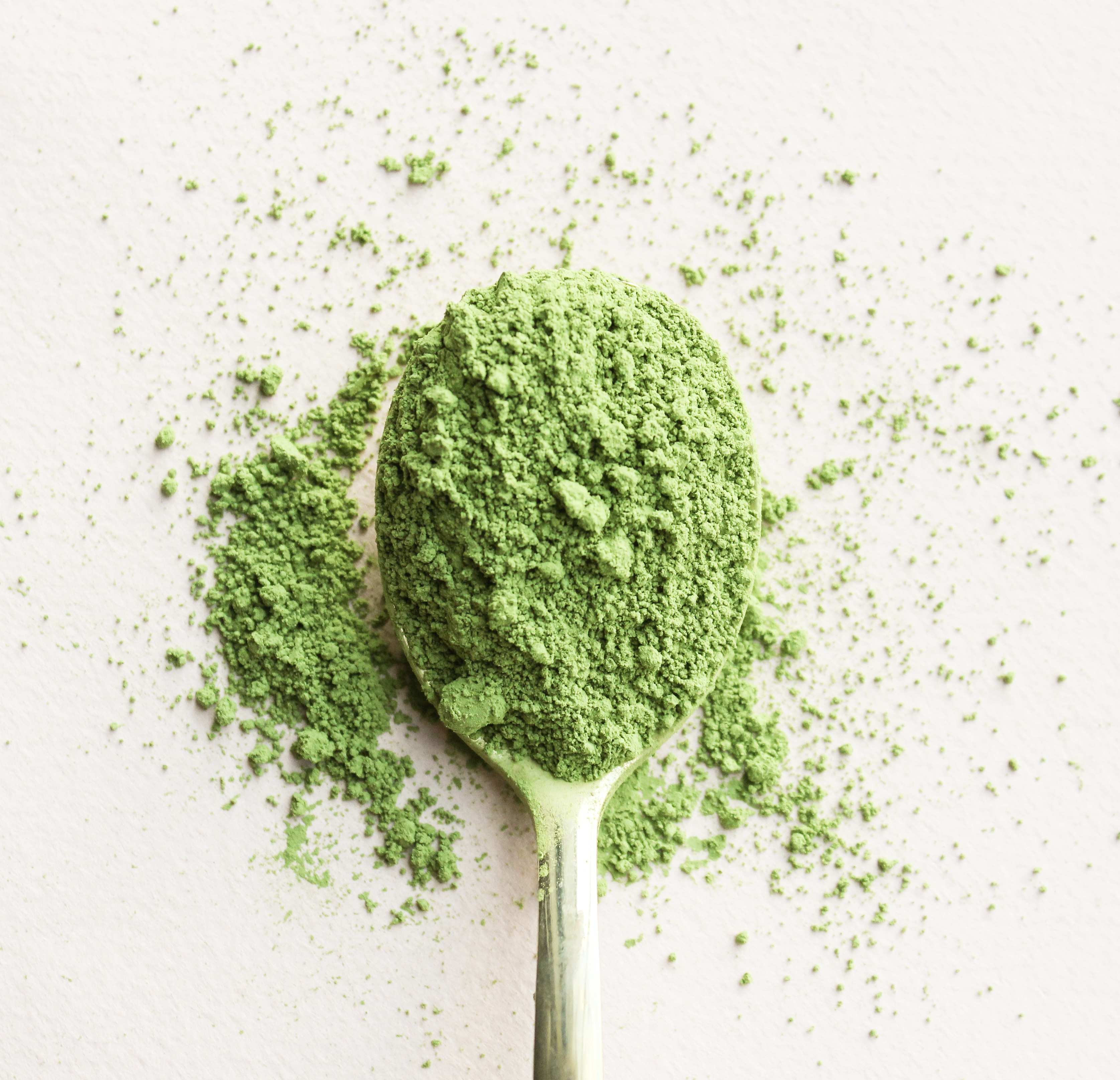 A scoop of Matcha